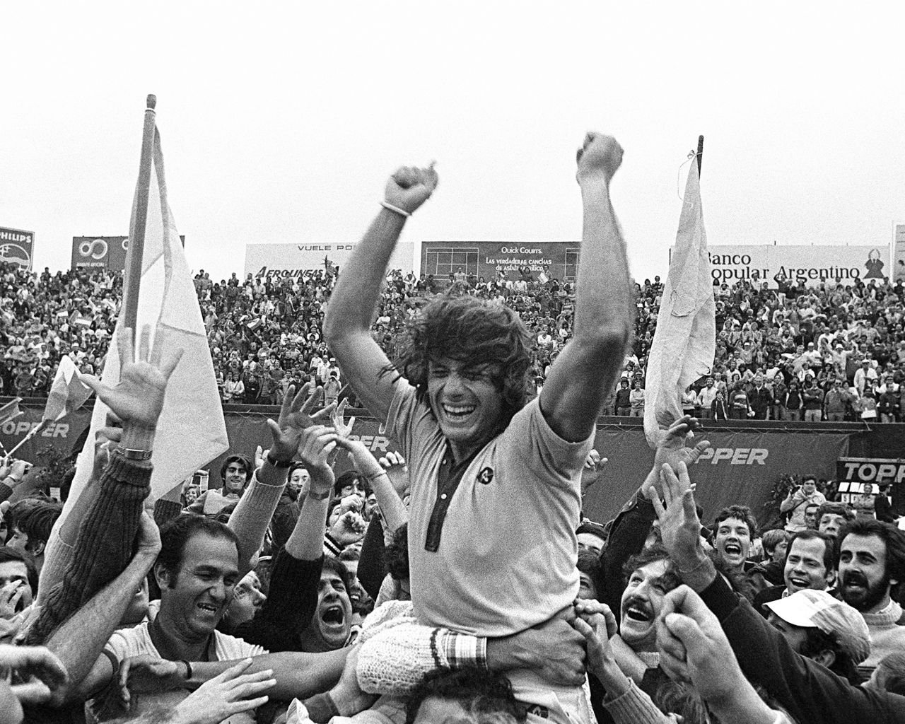 Argentine tennis player, Guillermo Vilas, celebrating after his victory on the Buenos Aires Open.